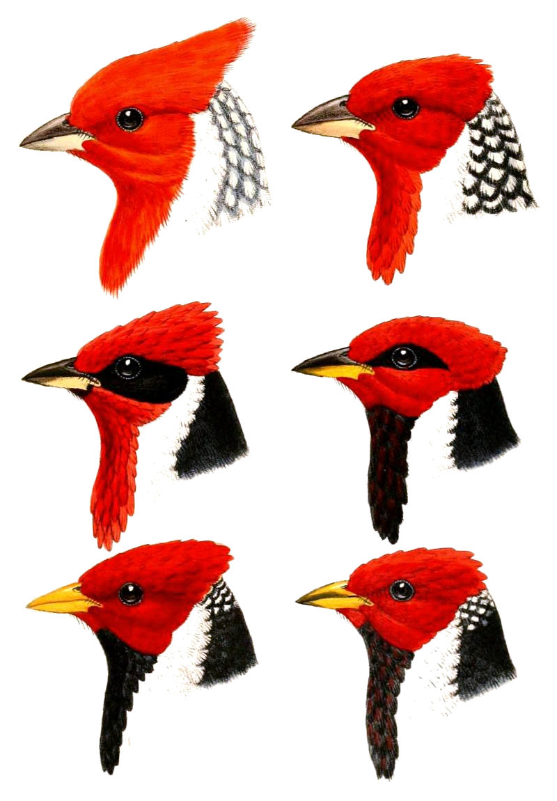 Red-crested Cardinal (upper left) - Red-cowled Cardinal (upper right) - Masked Cardinal (left center) - Red-capped Cardinal (right center) - Yellow-billed Cardinal (lower left) - Southern Red-capped Cardinal (lower right)